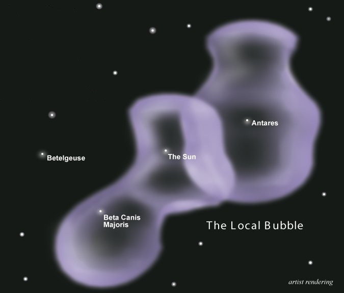 The Local Bubble.